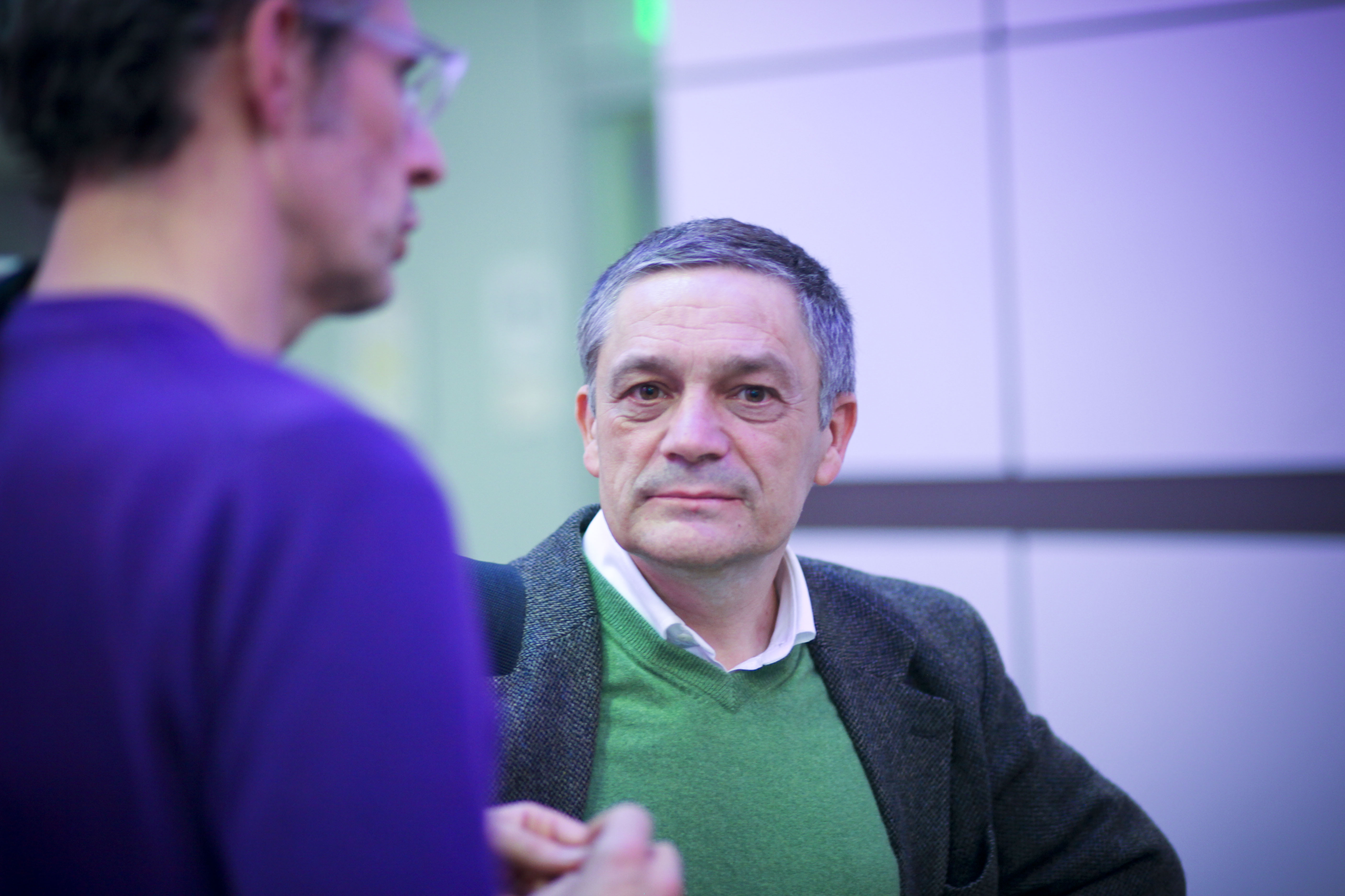 Director of Schloss Solitude